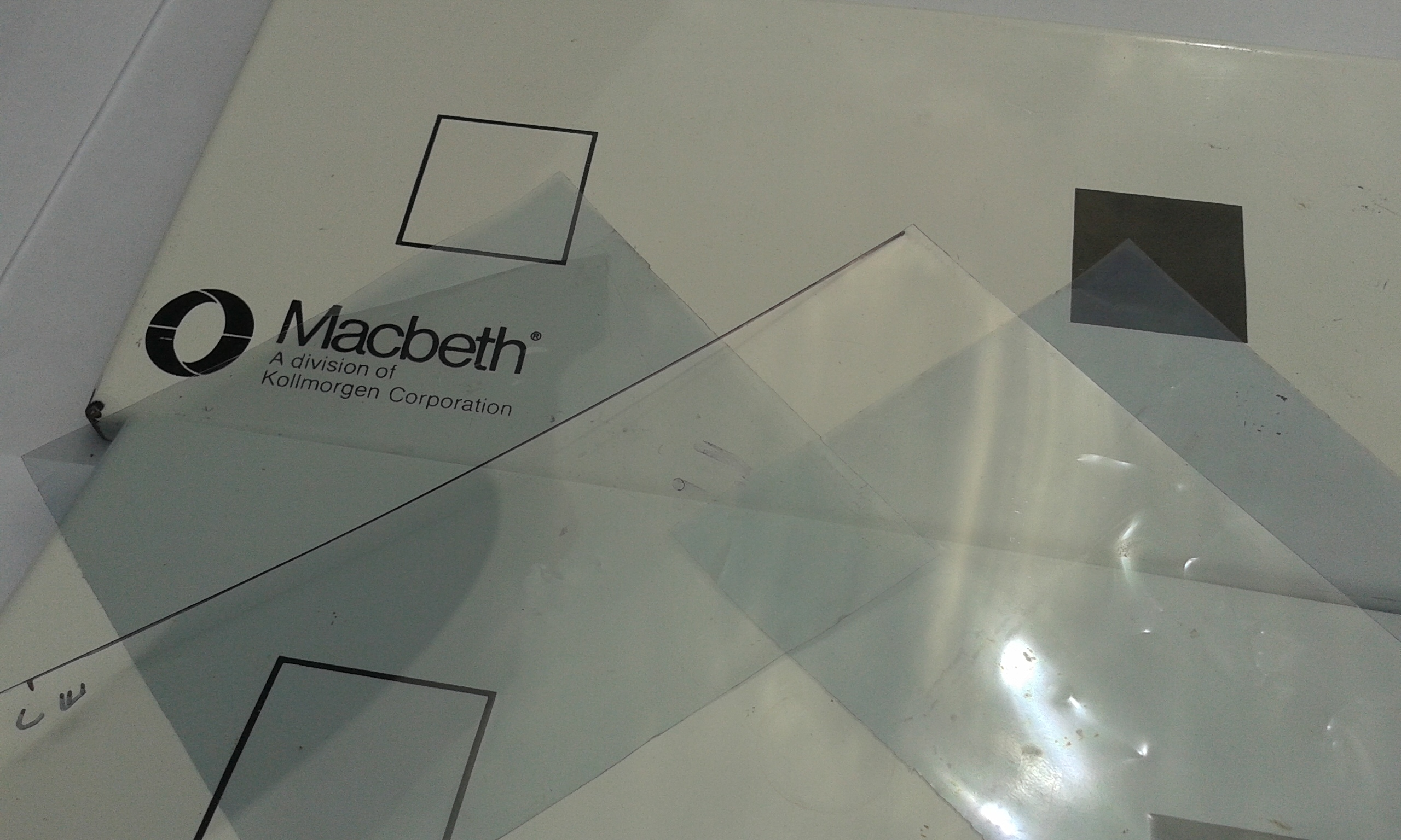 This photo illustrates advances in the technology of PEDOT conductive ink. All 3 samples in the photo have equivalent conductivity. However, the 2015 sample, has a water clear color, whereas the other samples, printed in 2008, have a light blue color.